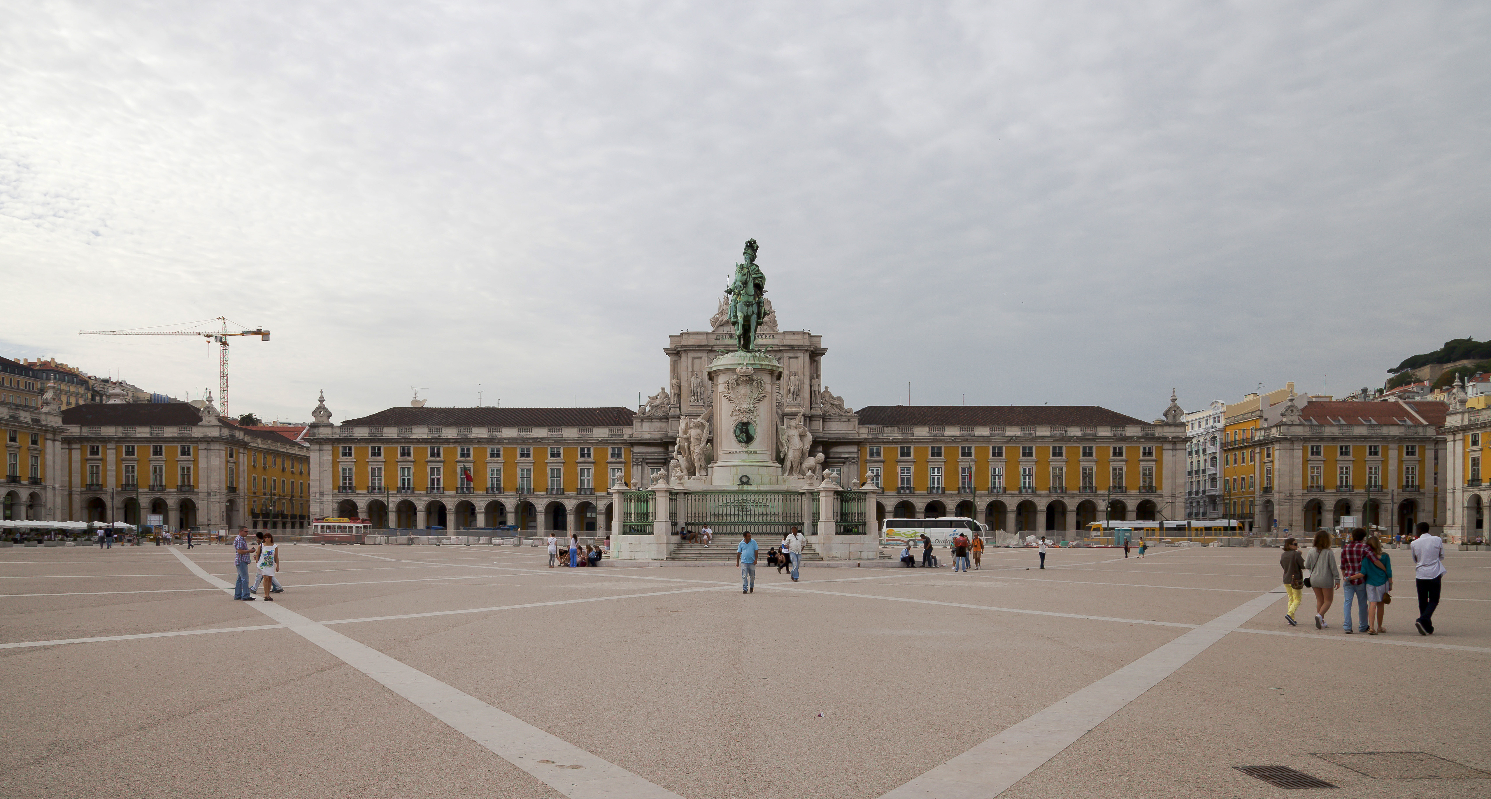 Commerce Square, Lisbon, Portugal